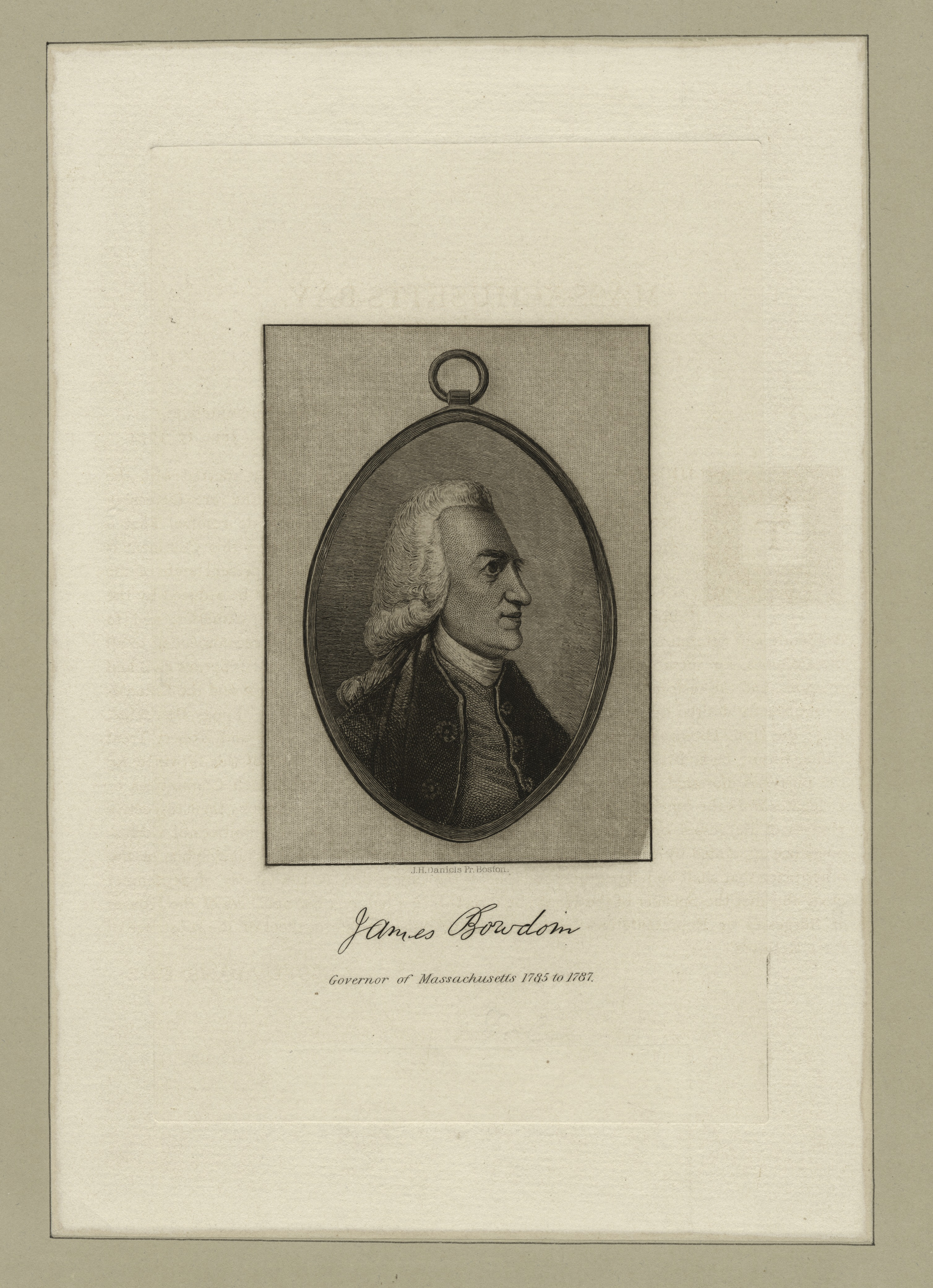 Printmakers include Asher B. Durand, Henry Bryan Hall, Albert Rosenthal and Max Rosenthal. Draughtsmen include David McNeely Stauffer. Title from Calendar of Emmet Collection. Includes some photomechanical reproductions. Citation/reference : EM251